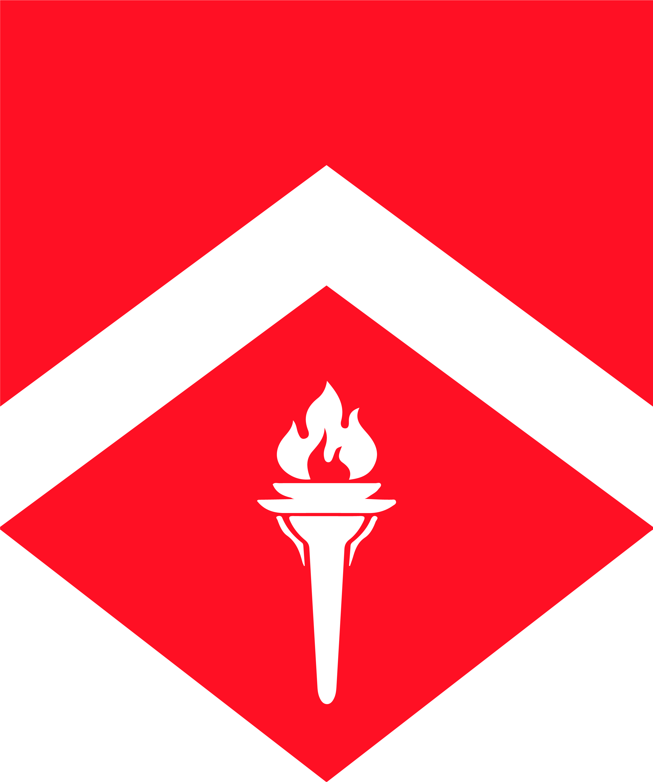 The Shield logo of the Harvard Undergraduate Council